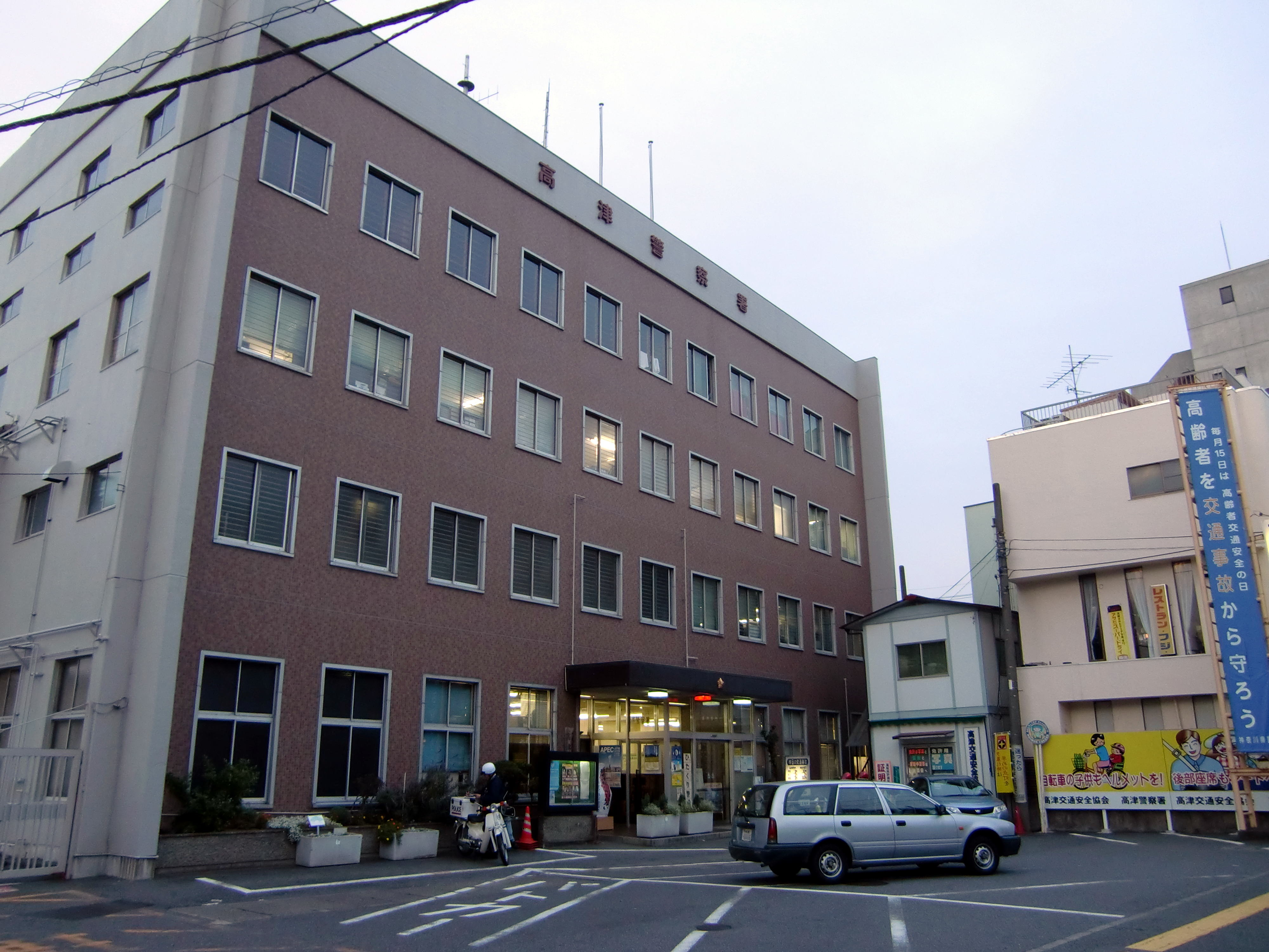 Takatsu Police Office.jpg